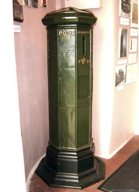 1st Mainland Post Box by John Butt of Gloucester now in Haverfordwest Town Museum, formerly at Merlin's Bridge, A40. Photographed 10th July 2001 by Kitmaster 23:05, 20 March 2007 (UTC) on EOS100FN and scanned.